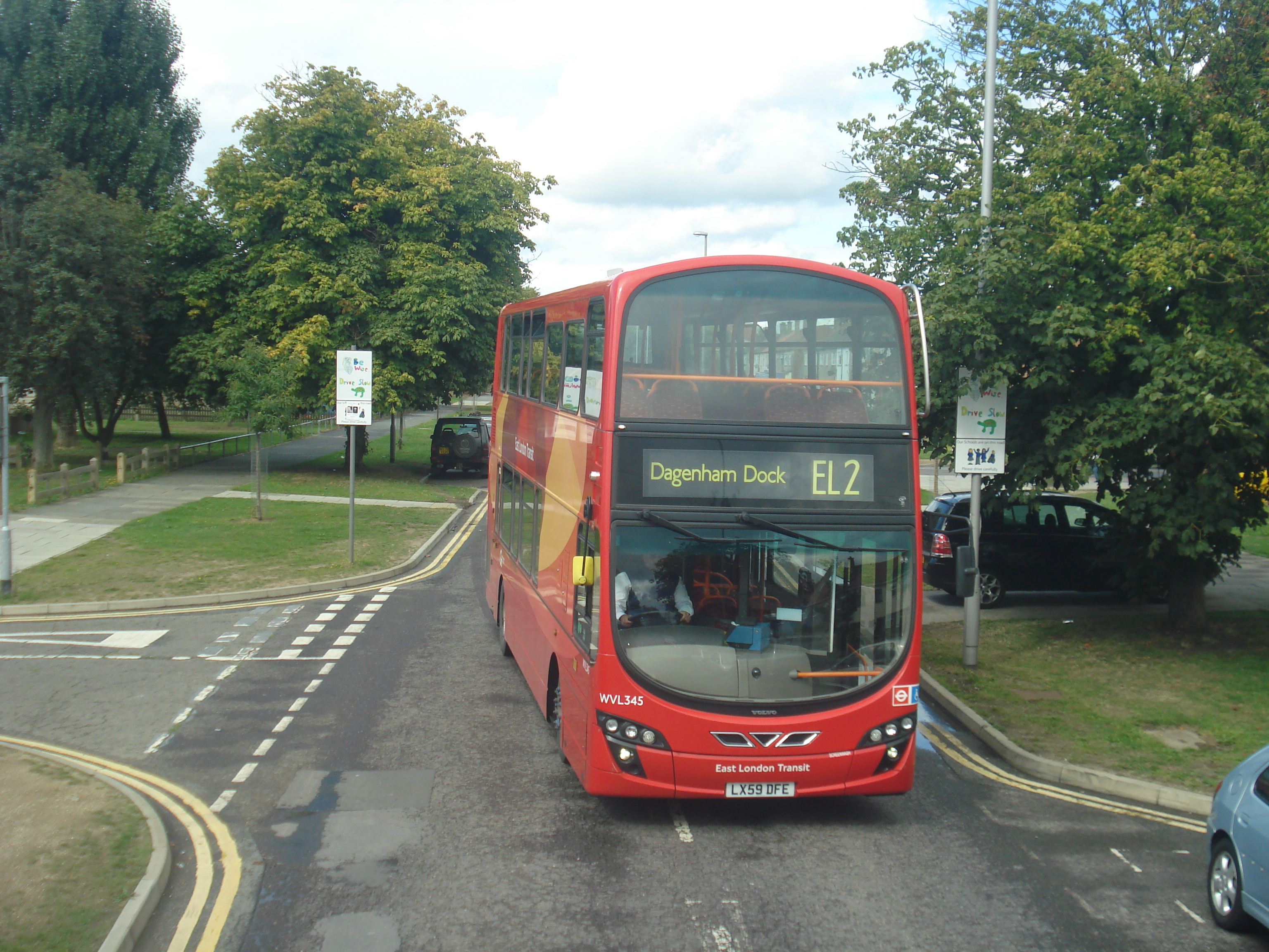 Blue Triangle WVL345 on Route EL2, Thames View Estate